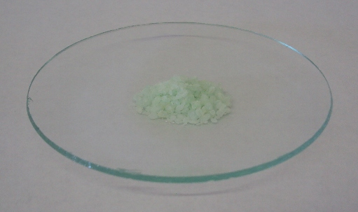 Ammonium iron(II) sulfate (Mohr's Salt)